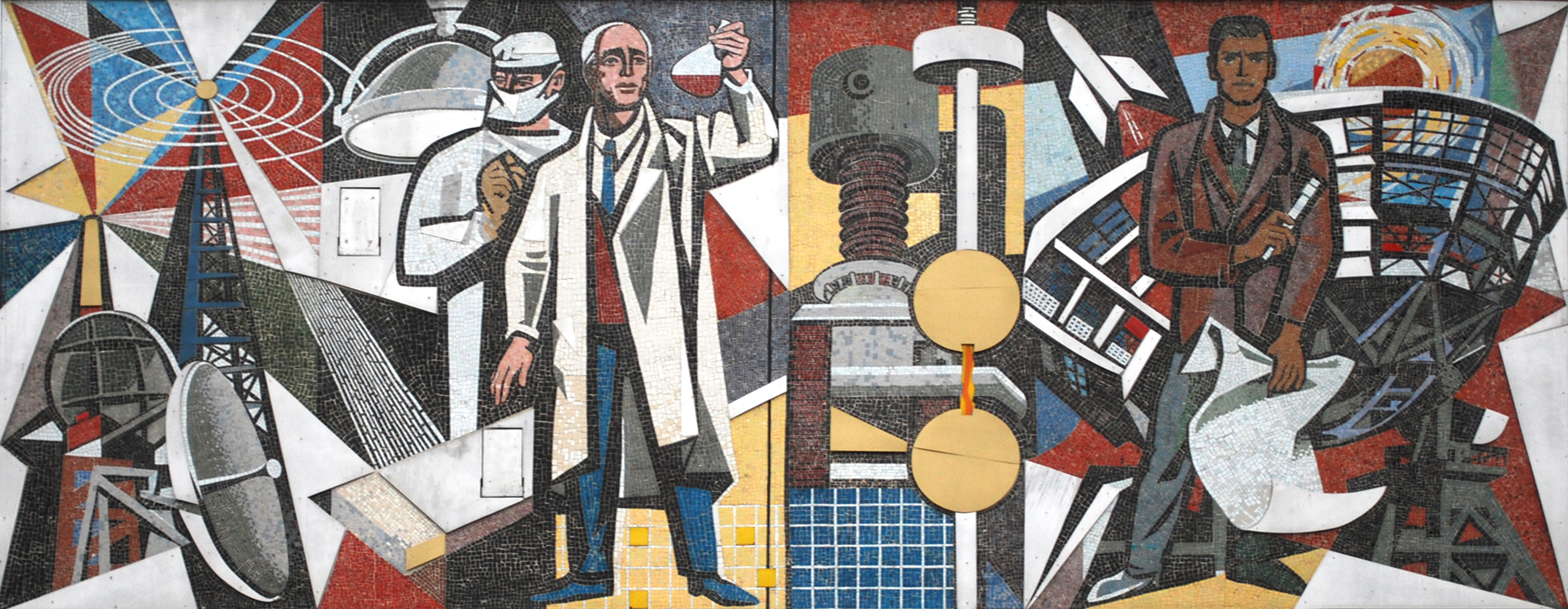 North-east side of the mosaic on "Haus des Lehrers" at Berlin Alexanderplatz